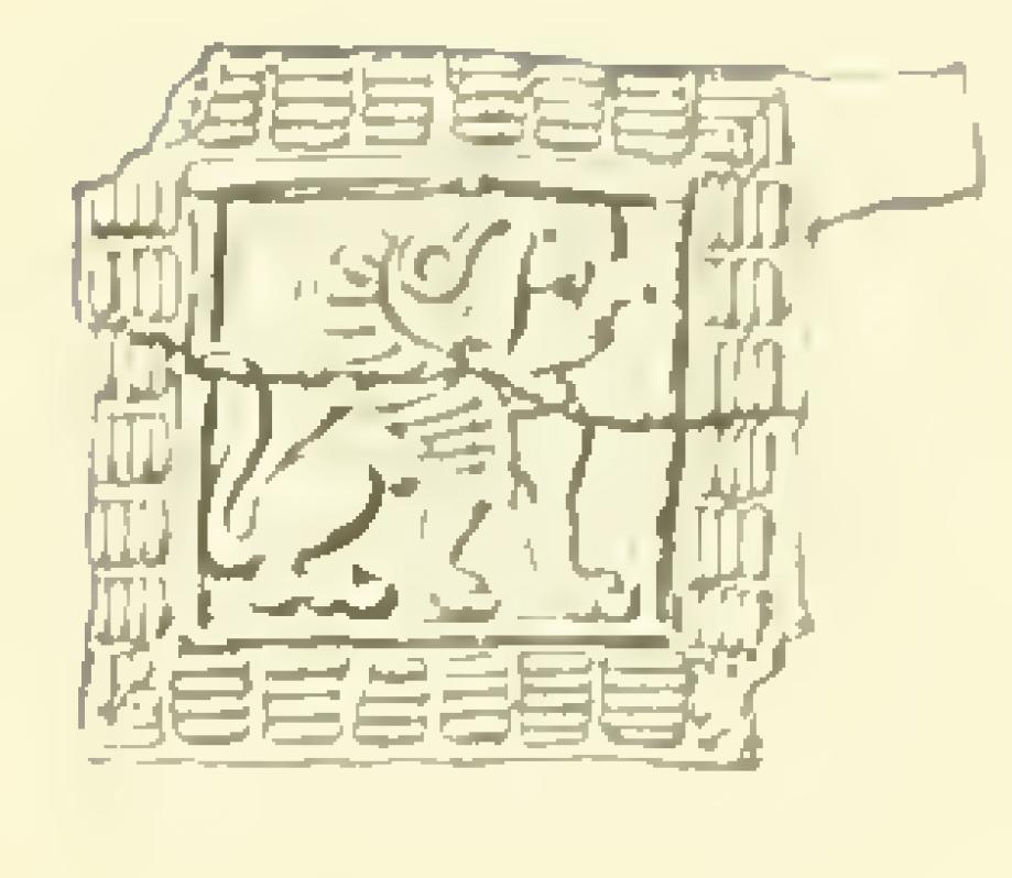 Pale gold square; Sphinx seated to right.